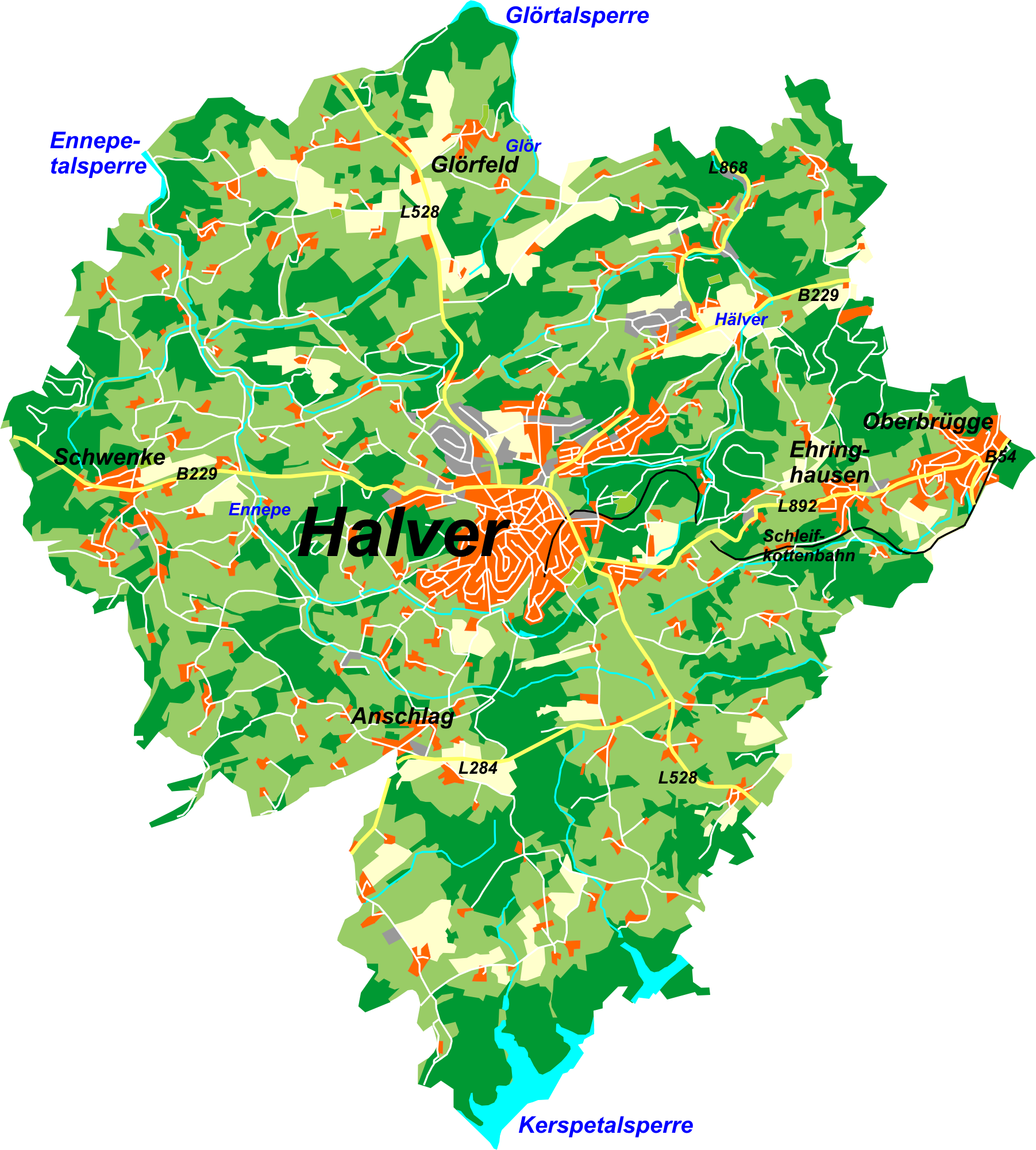 Map of Halver, Germany